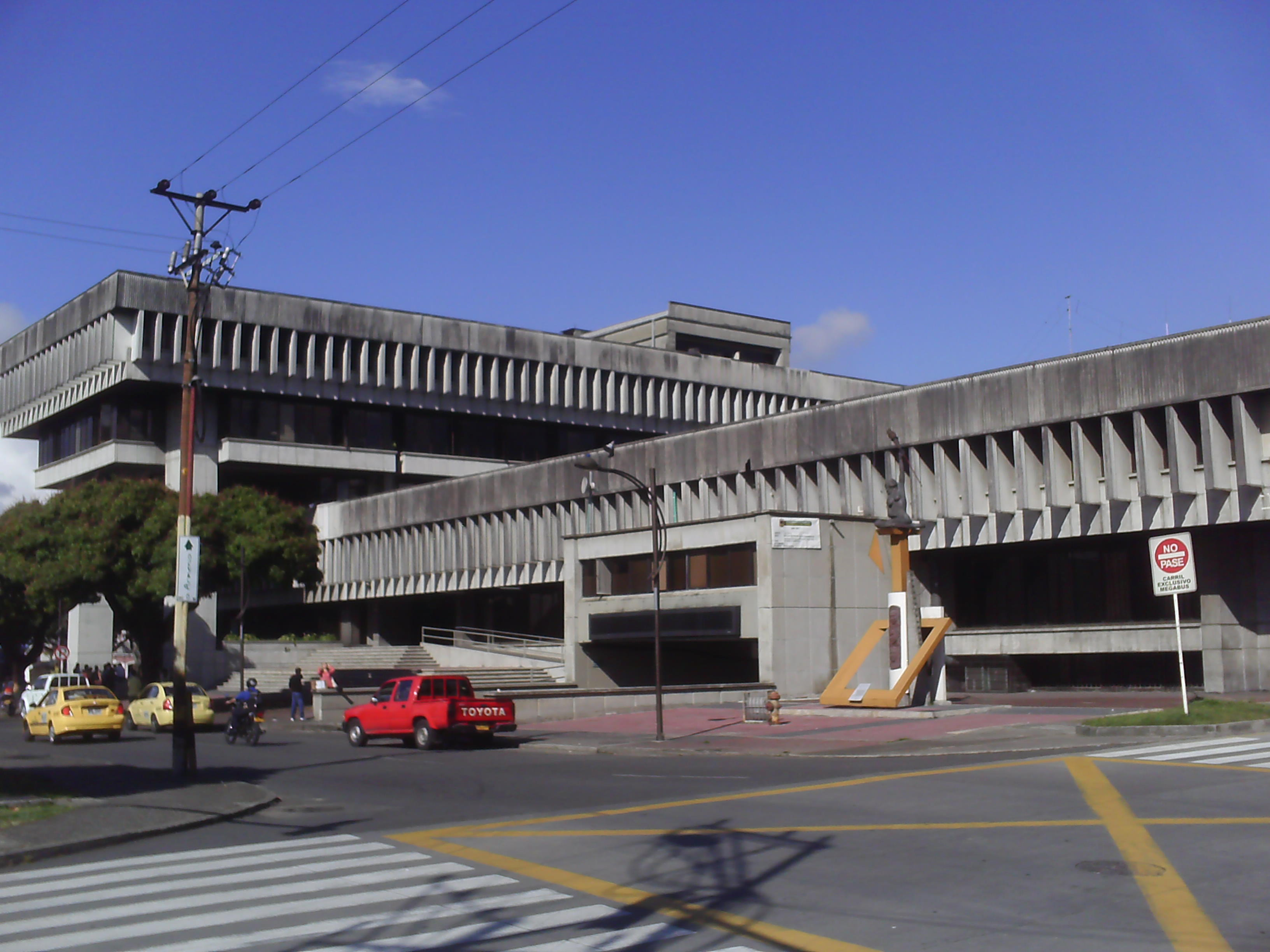 Risaralda's government building in Pereira (Colombia)